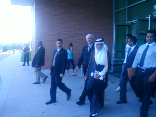 Turki Al Faisal leaving with his entourage of supporters.